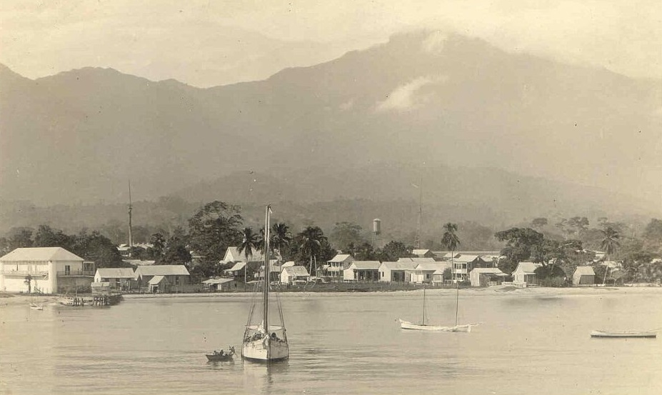 Partial view of La Ceiba waterfront in the 1910s. The sender of this real photo postcard, possibly an American missionary, describes the white building behind the boat's mast as "our church" and the large building at the left as the barracks and prison.The wireless station and tower to the right of the water tower belonged to "an American banana company", most likely the company that became the Standard Fruit Co. and whose operations were headquartered in La Ceiba.